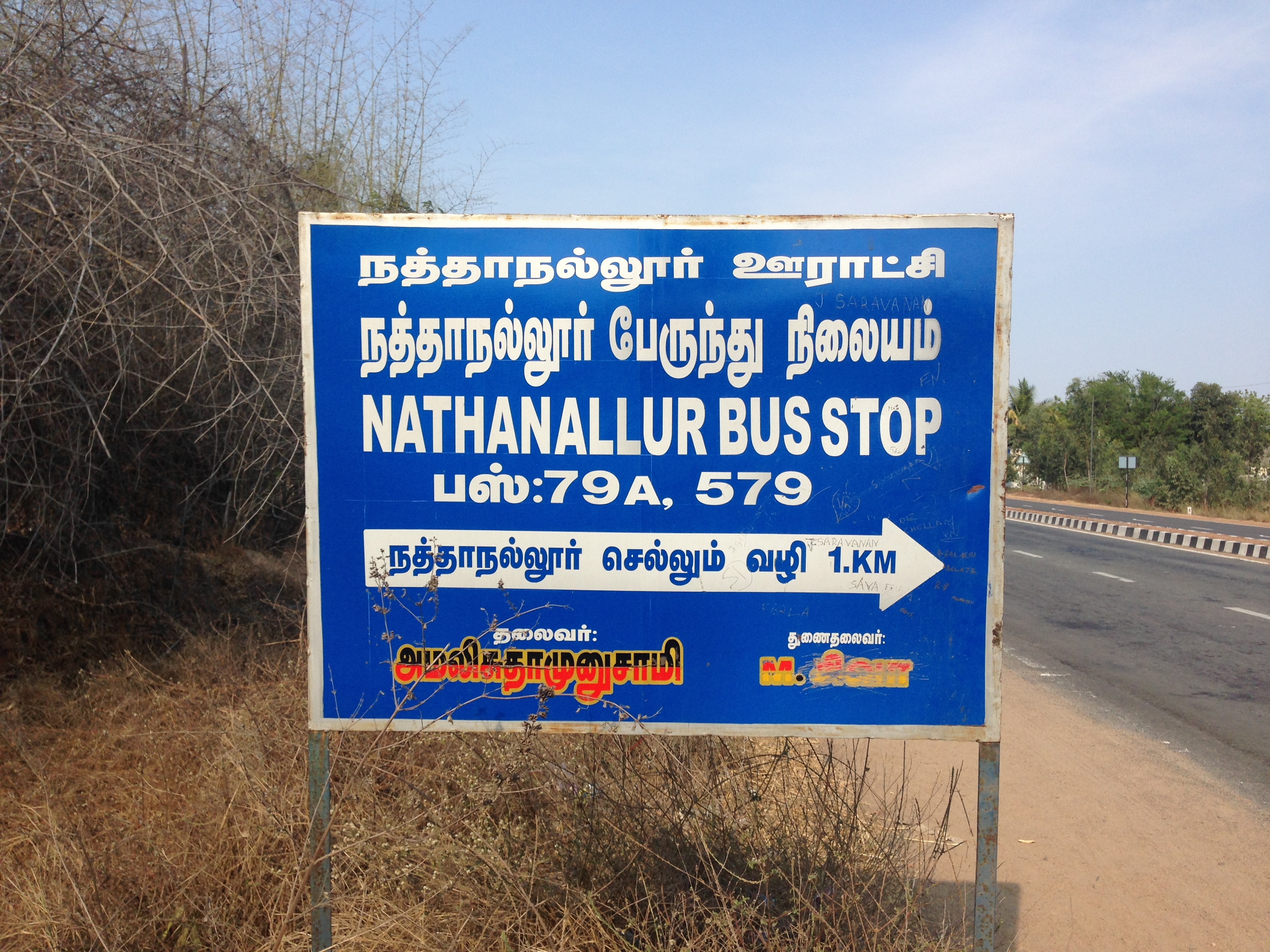 Nathanallur is a small village, 5.5 kilometres (3.4 mi) distance from its Walajabad taluk and town, 20.9 kilometres (13.0 mi) distance from its district main city Kanchipuram